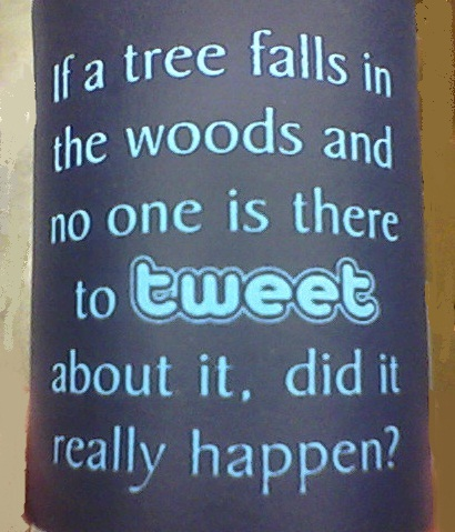 anti-proverb: if a tree falls in the forest, on foam can holder